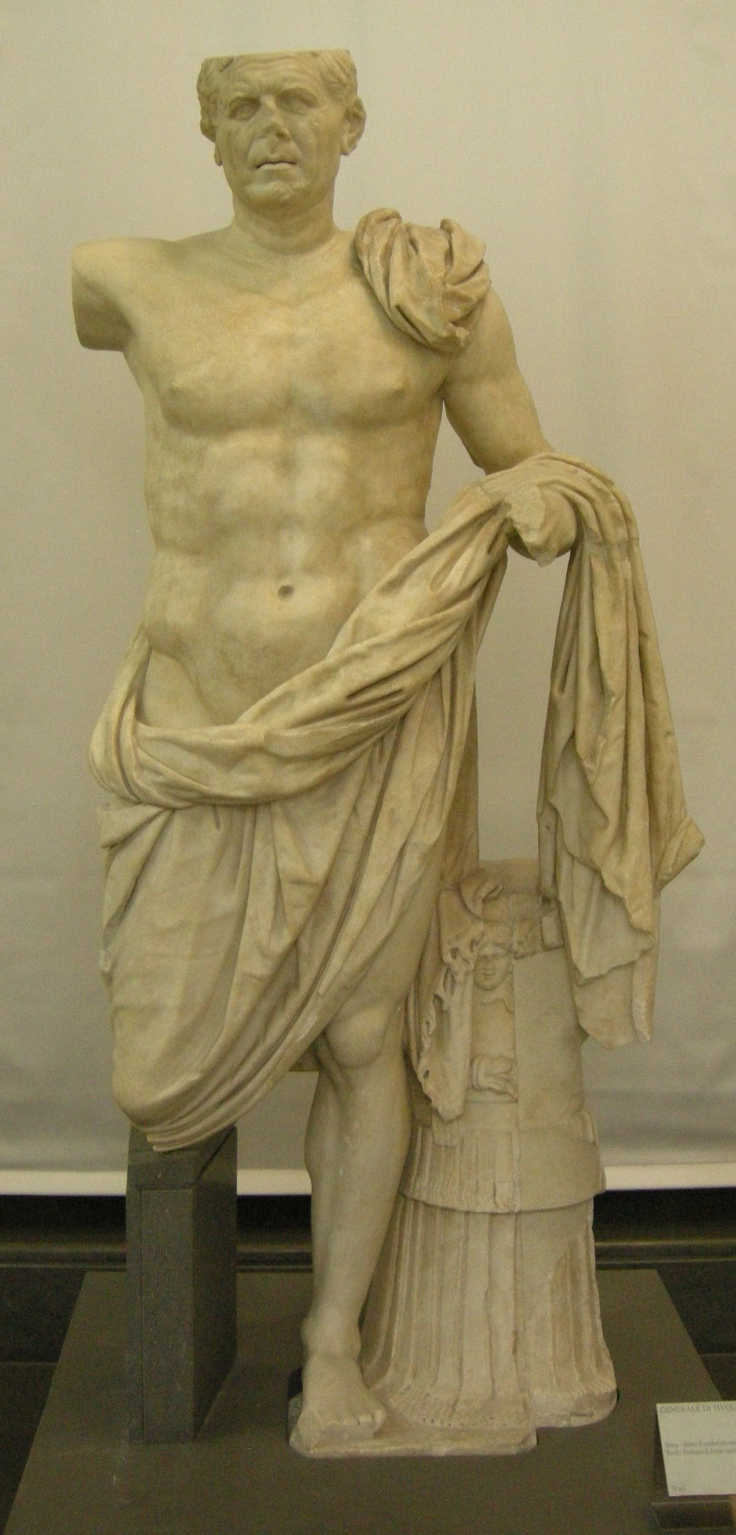 read filename (it)